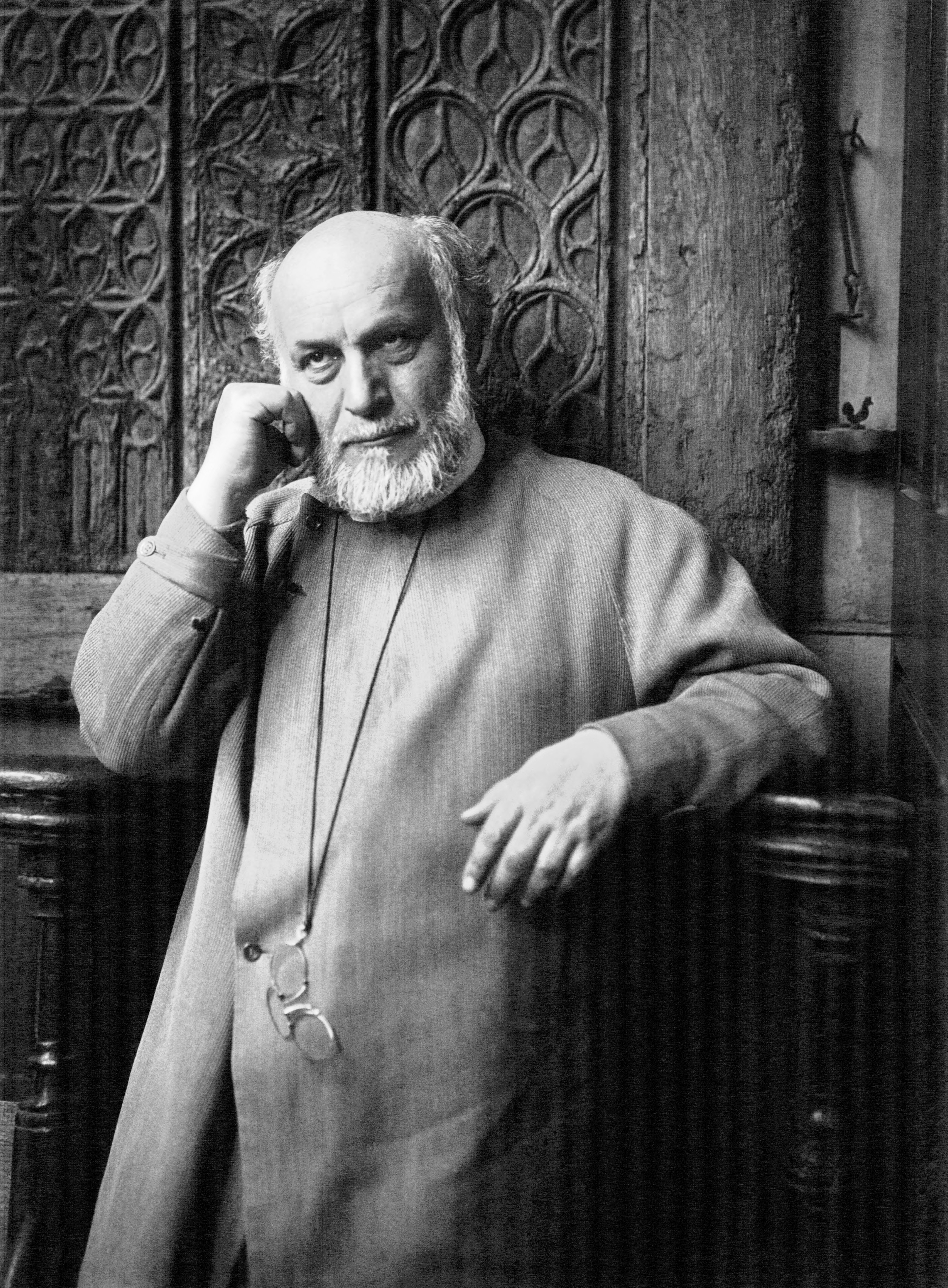 Antoine Bourdelle (1861-1929), French sculptor. Picture taken in 1925 : glass negative, restored print.